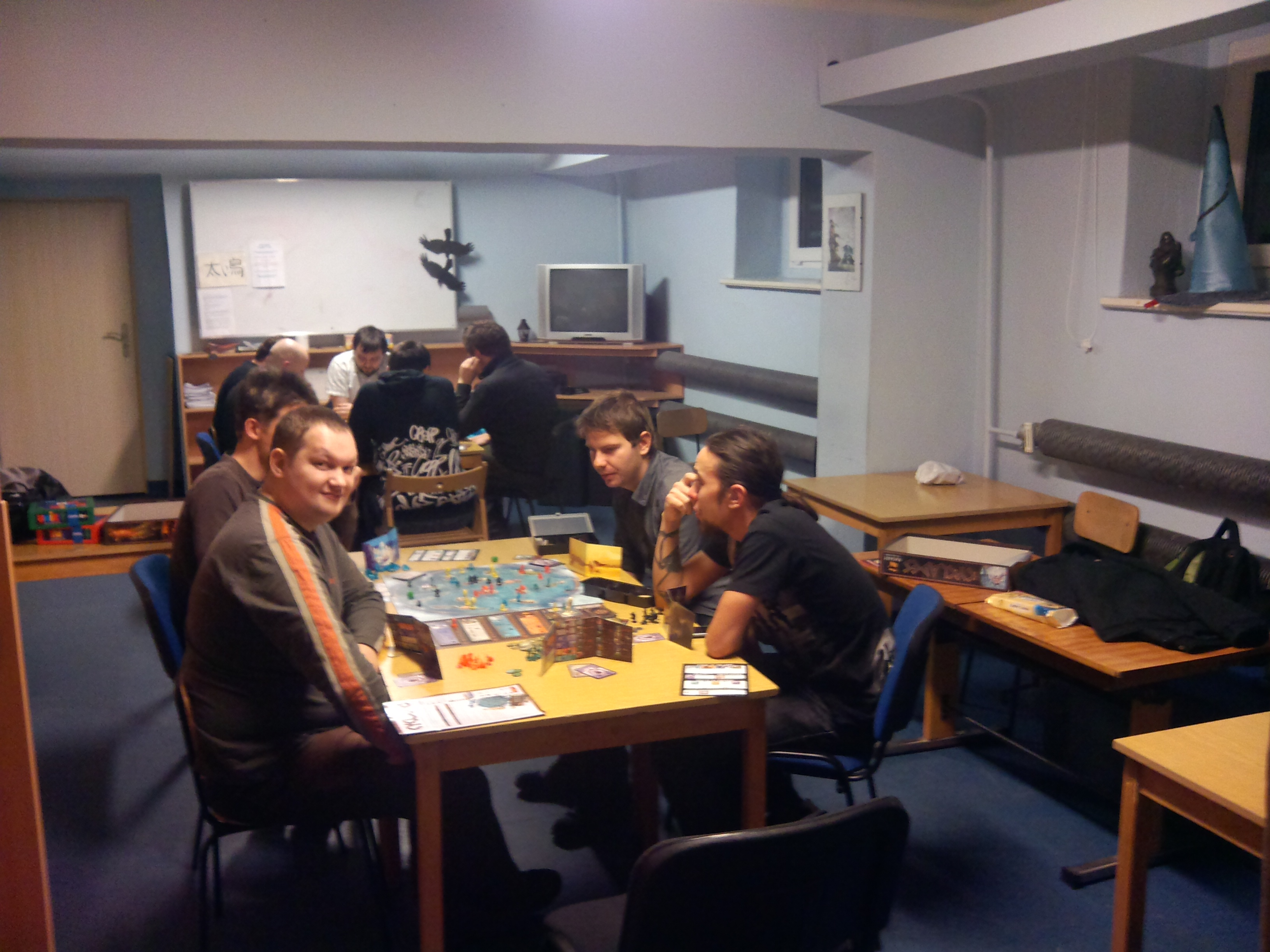 Śląski Klub Fantastyki - main room; board games played.